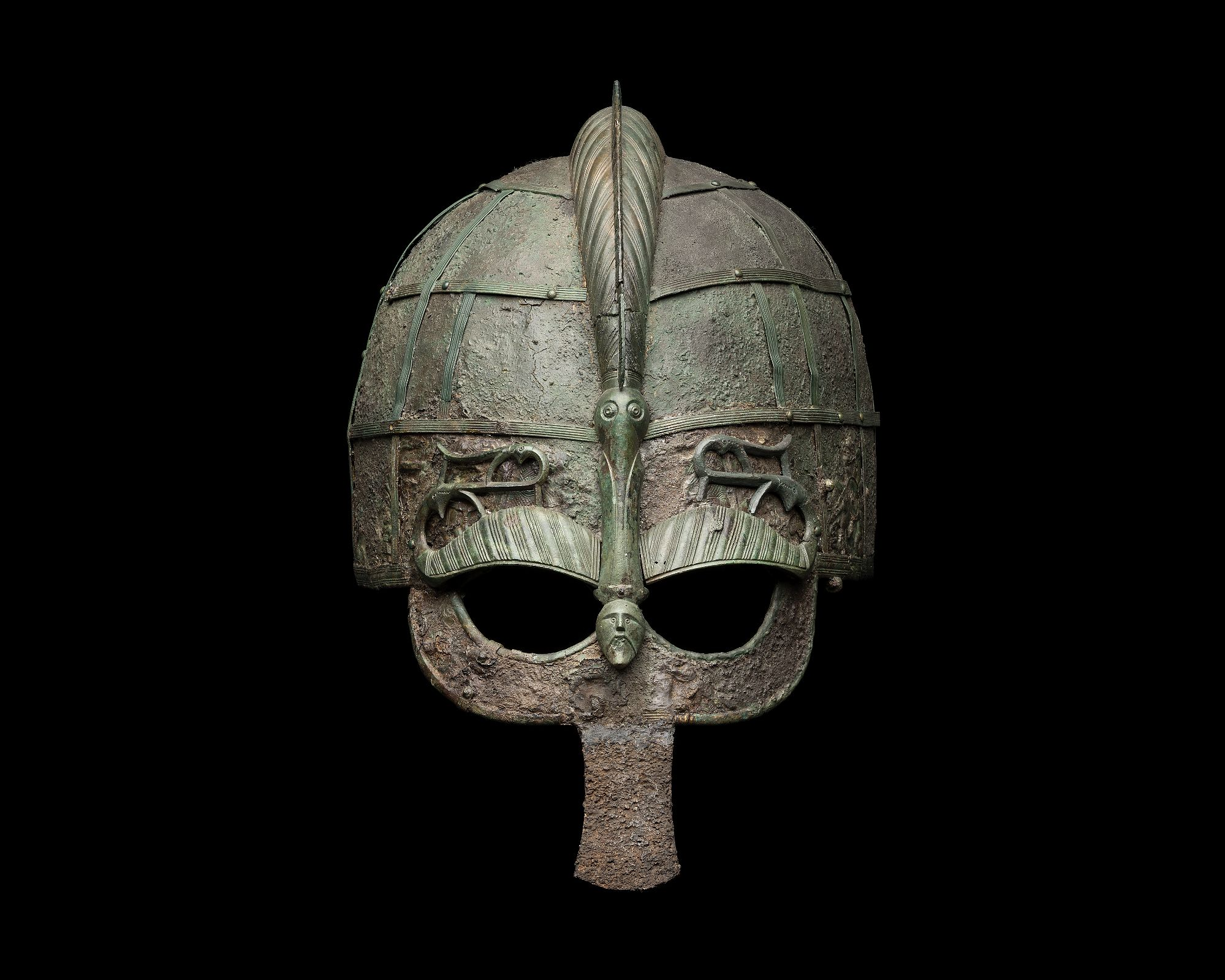 The Vendel I helmet in the Statens historiska museum